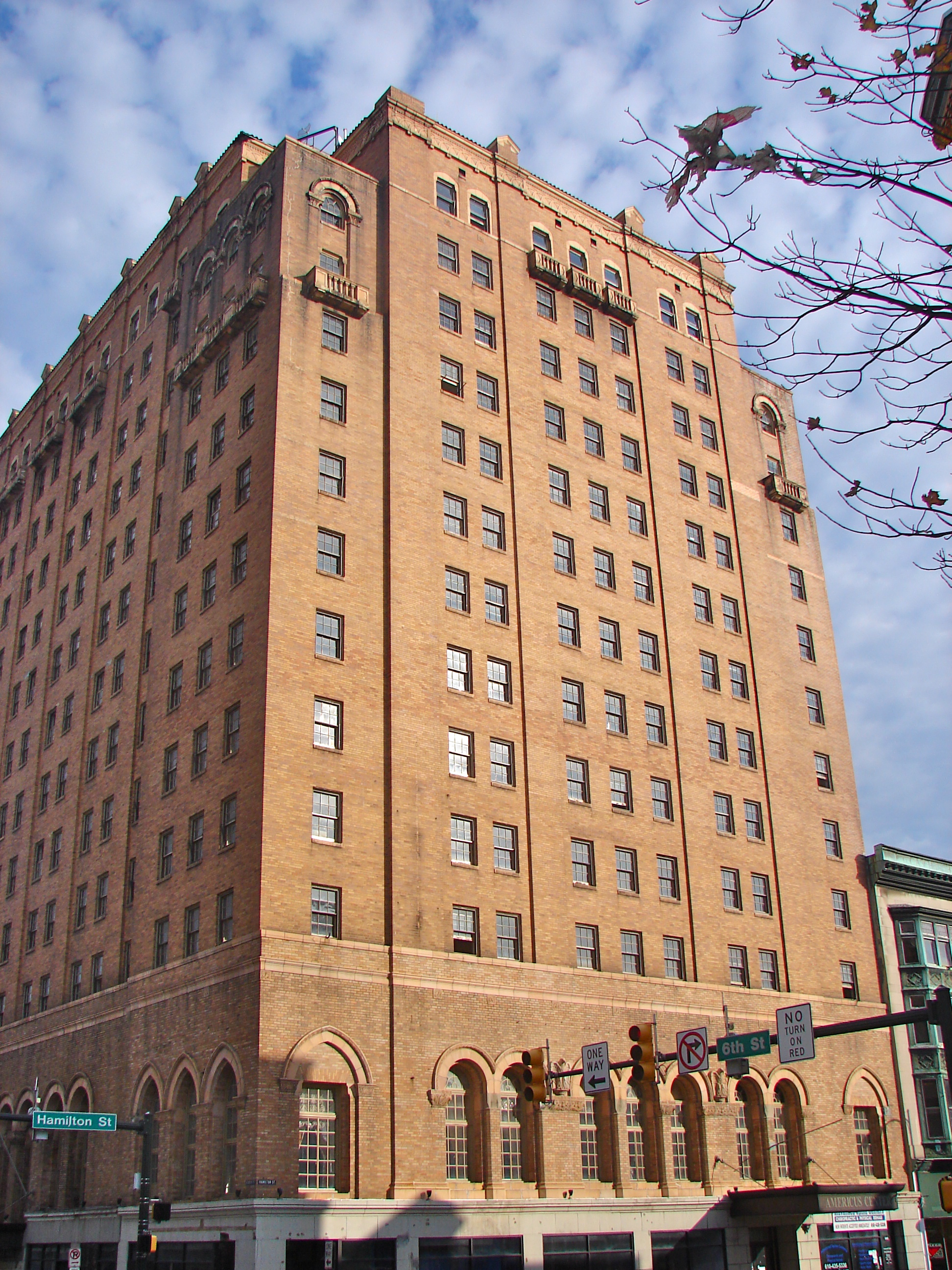 Americus Hotel on the NRHP since August 23, 1984. At 541 Hamilton Street, Allentown, Pennsylvania